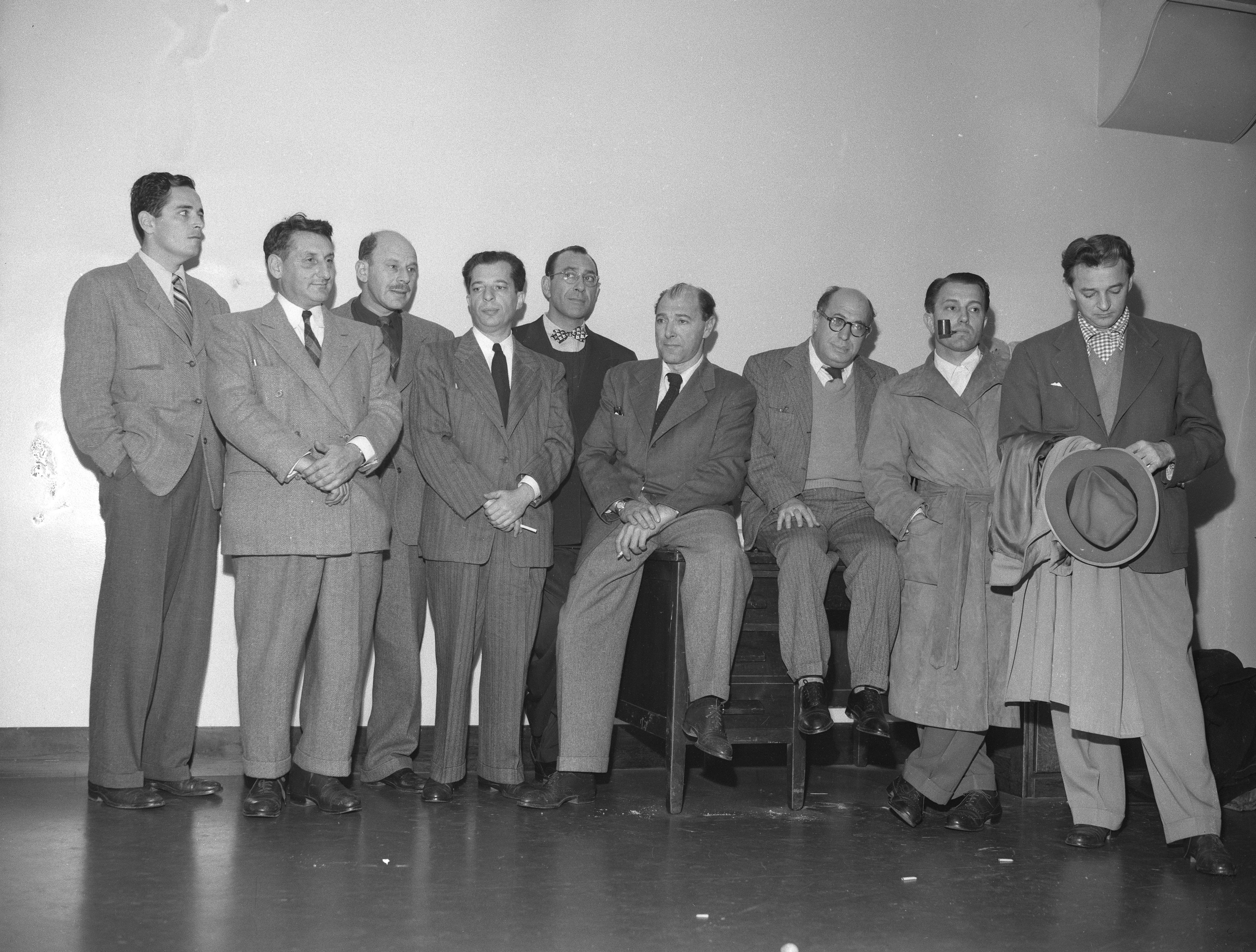 Charged with contempt of Congress, nine Hollywood men give themselves up to U.S. Marshal in December 10, 1947. From right: Robert Adrian Scott, Edward Dmytryk, Samuel Ornitz, Lester Cole, Herbert Biberman, Albert Maltz, Alvah Bessie, John Howard Lawson and Ring Lardner Jr.